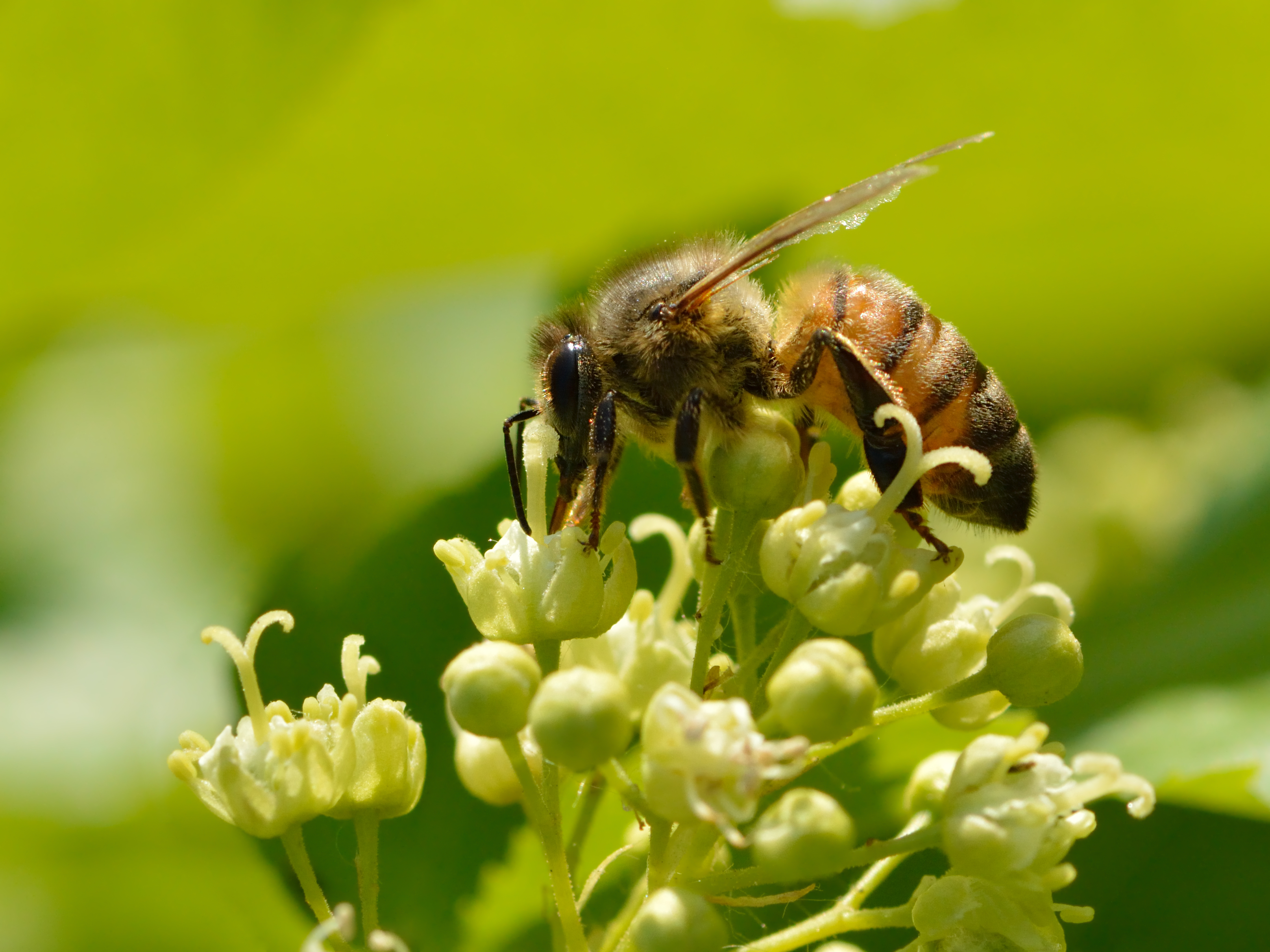 European honey bee (Apis mellifera) on the inflorescence of the tatarian maple (Acer tataricum). Keila, Northwestern Estonia.